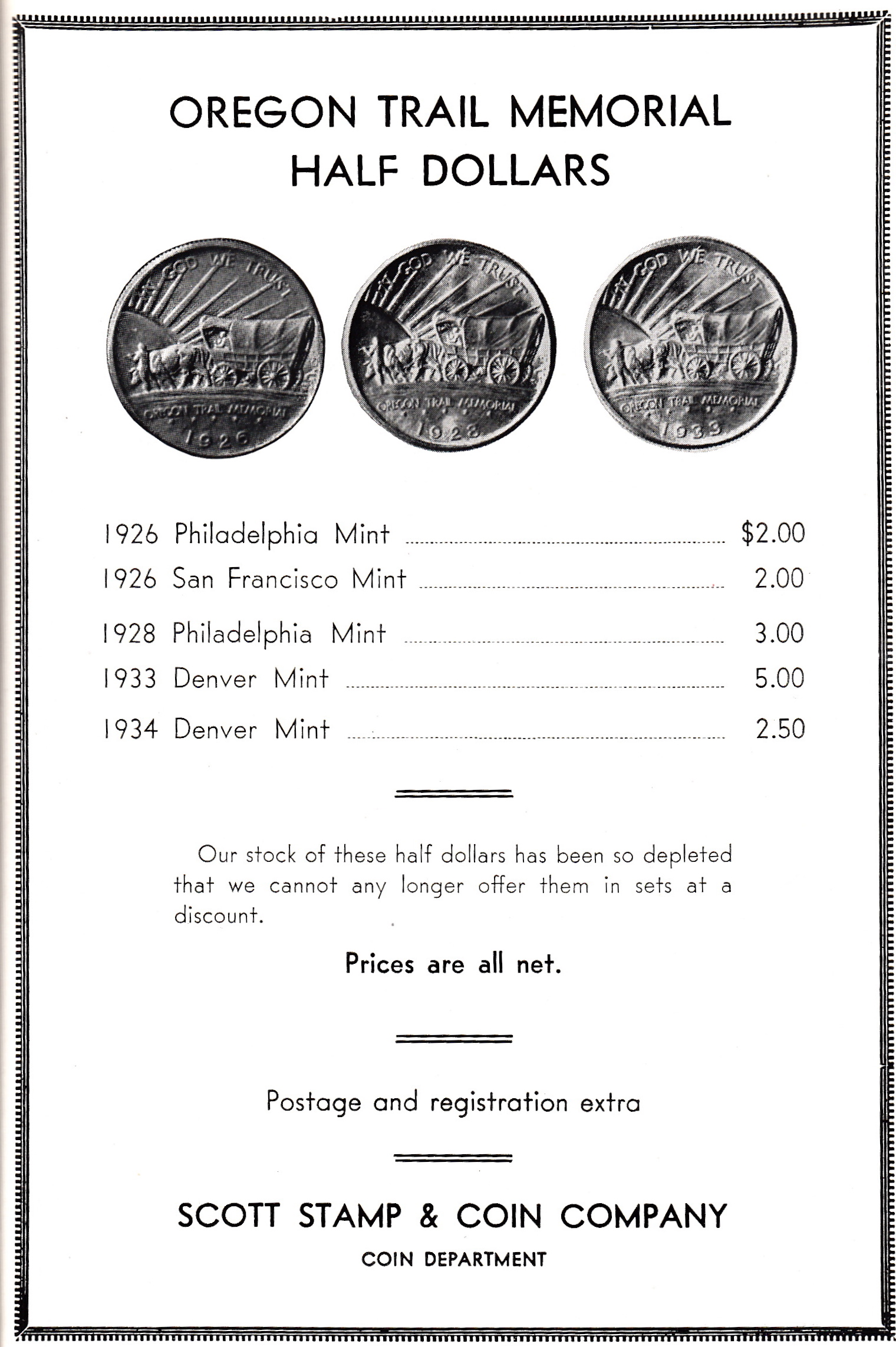 Ad for Oregon Trail Memorial half dollars by Scott, who was then the agent for the Oregon Trail Memorial Commission